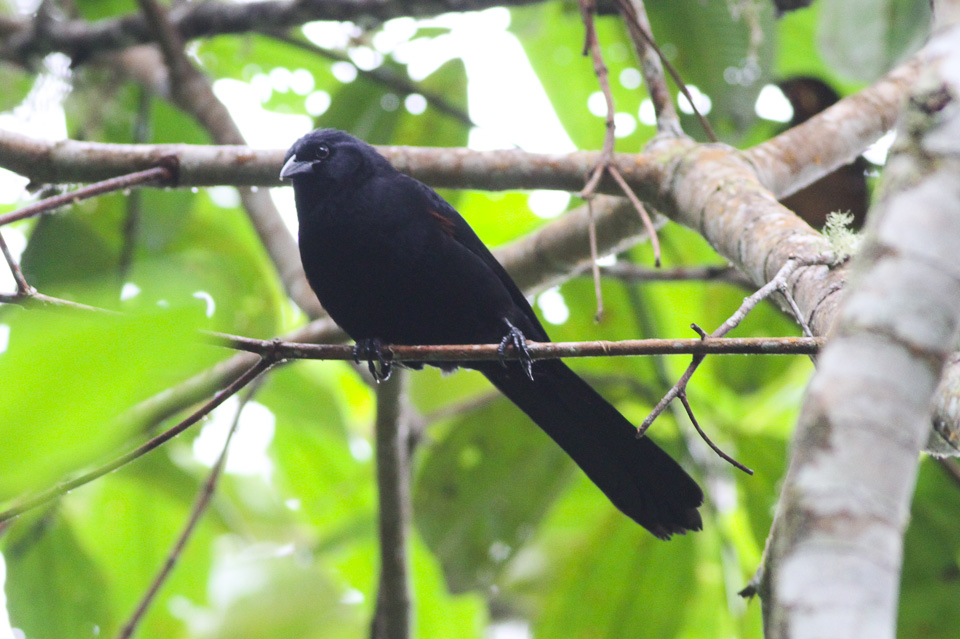 Columbian Mountain Grackle (Macroagelaius subalaris)